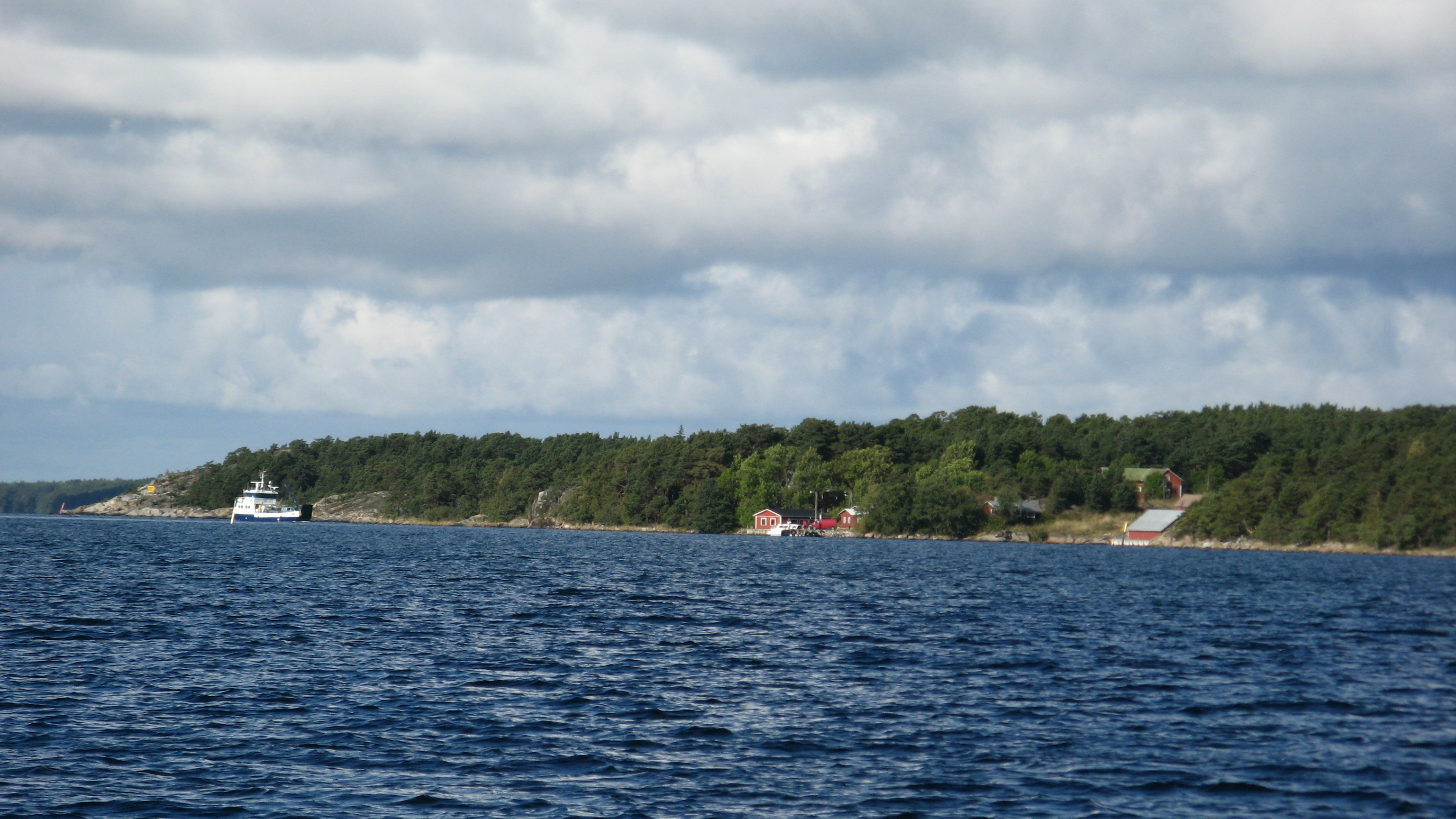 The ferry Fiskö arrives to Brännskär in the Archipelago Sea.